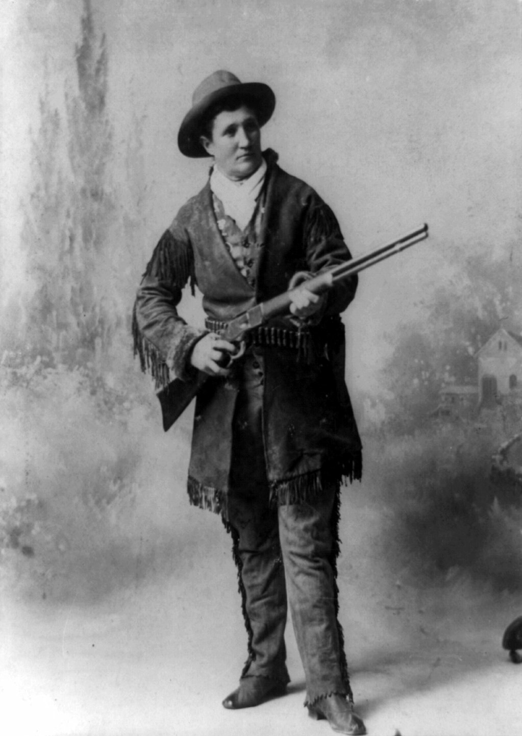 A portrait photograph of Martha Canary, better known as Calamity Jane.